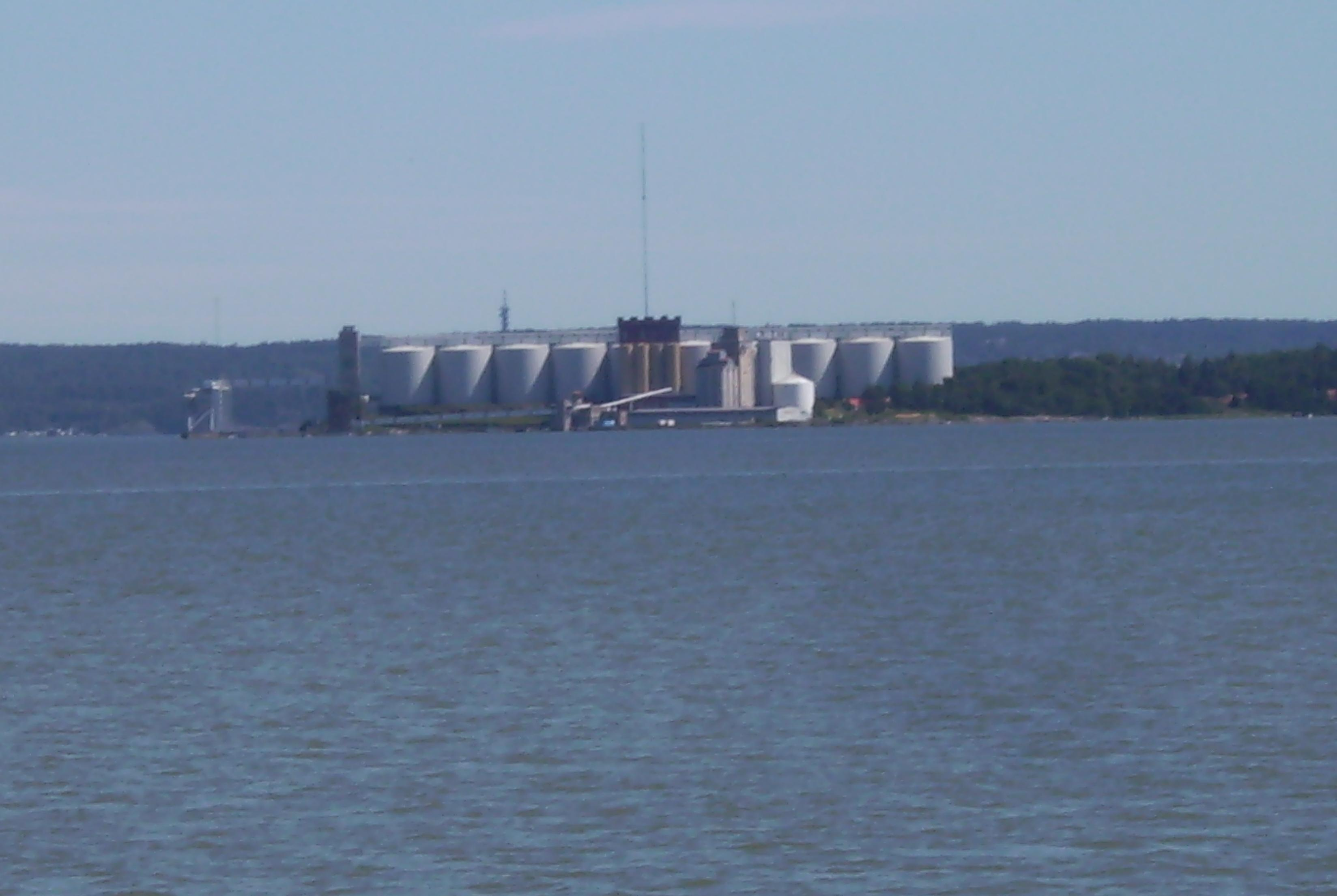 The harbour and factory area in Norrköping and the bay Bråviken.